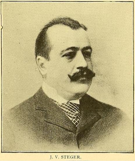 Image of John Valentine Steger which appeared with the biography that was included in the title document